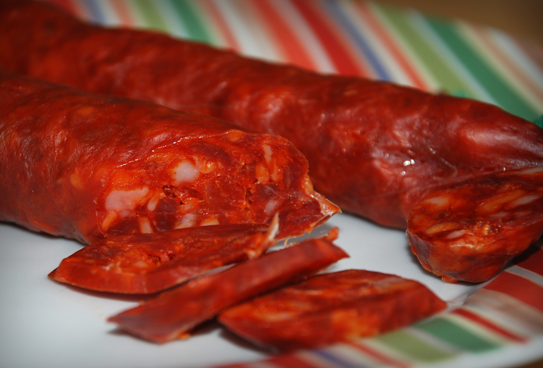 Chorizo from San Pedro Manrique (Soria, Castile and León).